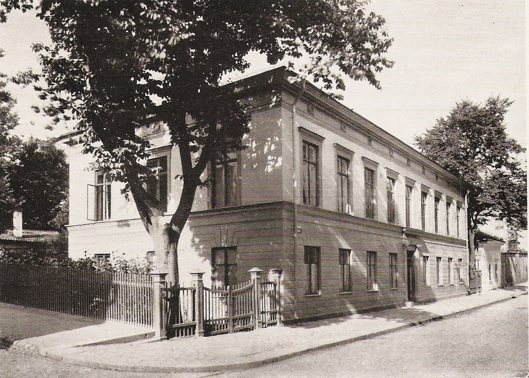 Stockholm nation house Uppsala before extension 1848-1968